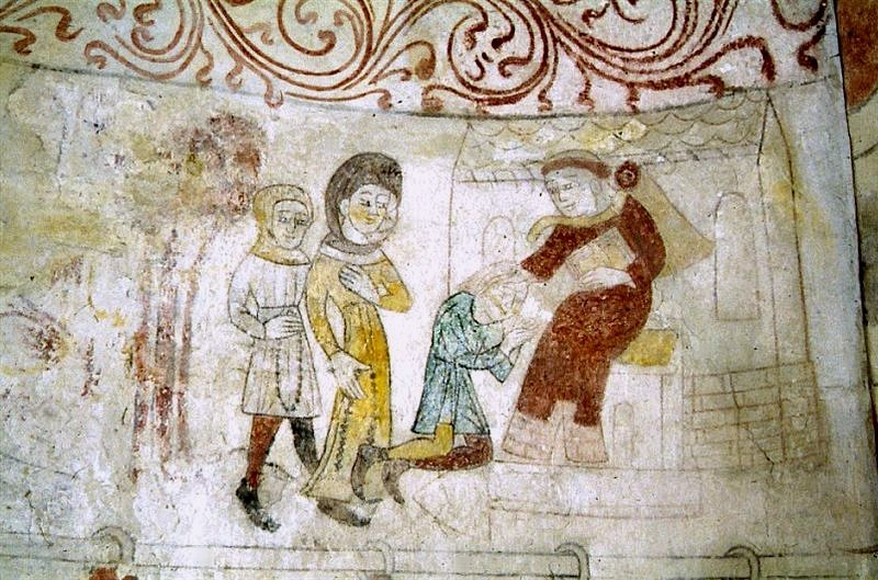 Bregninge Kirke (church) in Kalundborg Kommune